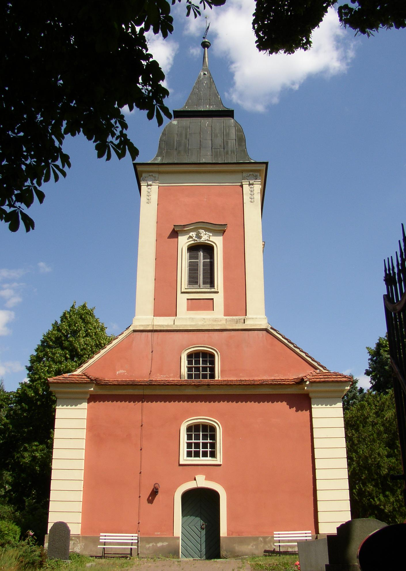 Church in Kloster Lehnin-Trechwitz in Brandenburg, Germany